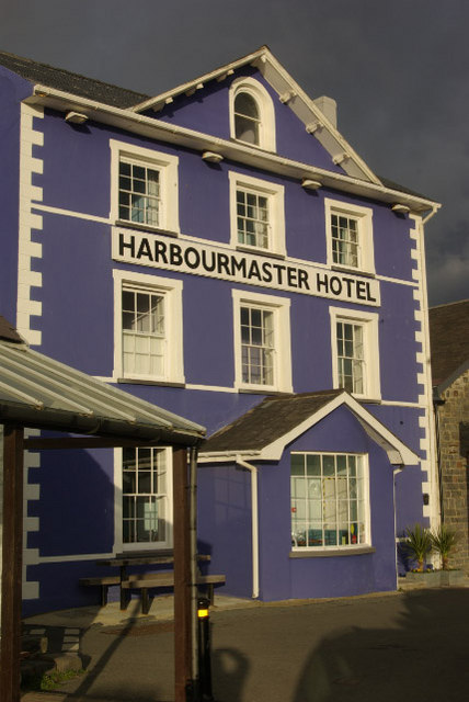 Harbourmaster Hotel, Aberaeron One of the town's principal hostelries, this was built in the early 19th century to serve the town in its heyday as a port and shipbuilding centre. It has recently been refurbished and its fashionable bar attracts a sizeable crowd.